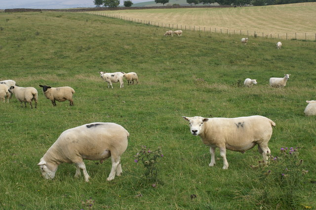 Beltex Sheep near Whygill. This breed introduced from Belgium in 1989 is noted for its generous musculature particularly of the hindquarters. The wall behind the Beltex conceals the road from Whygill to Great Asby.